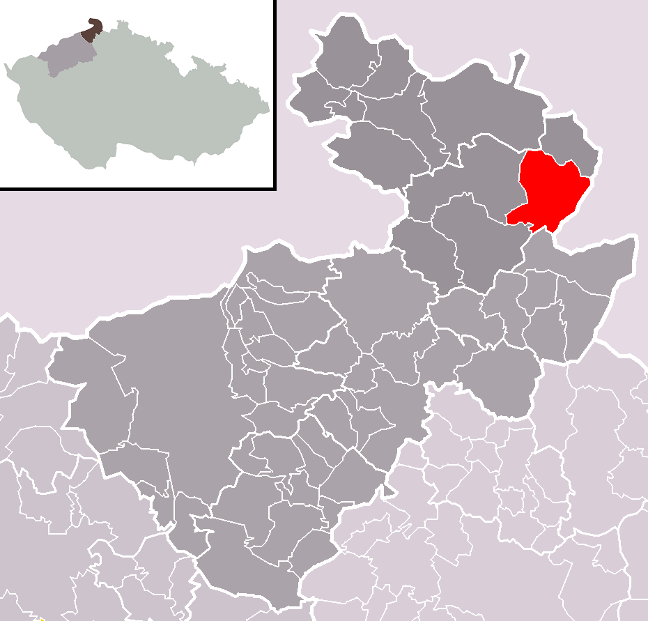 Location of Rumburk town within Děčín District and administrative area of Rumburk as a Municipality with Extended Competence.